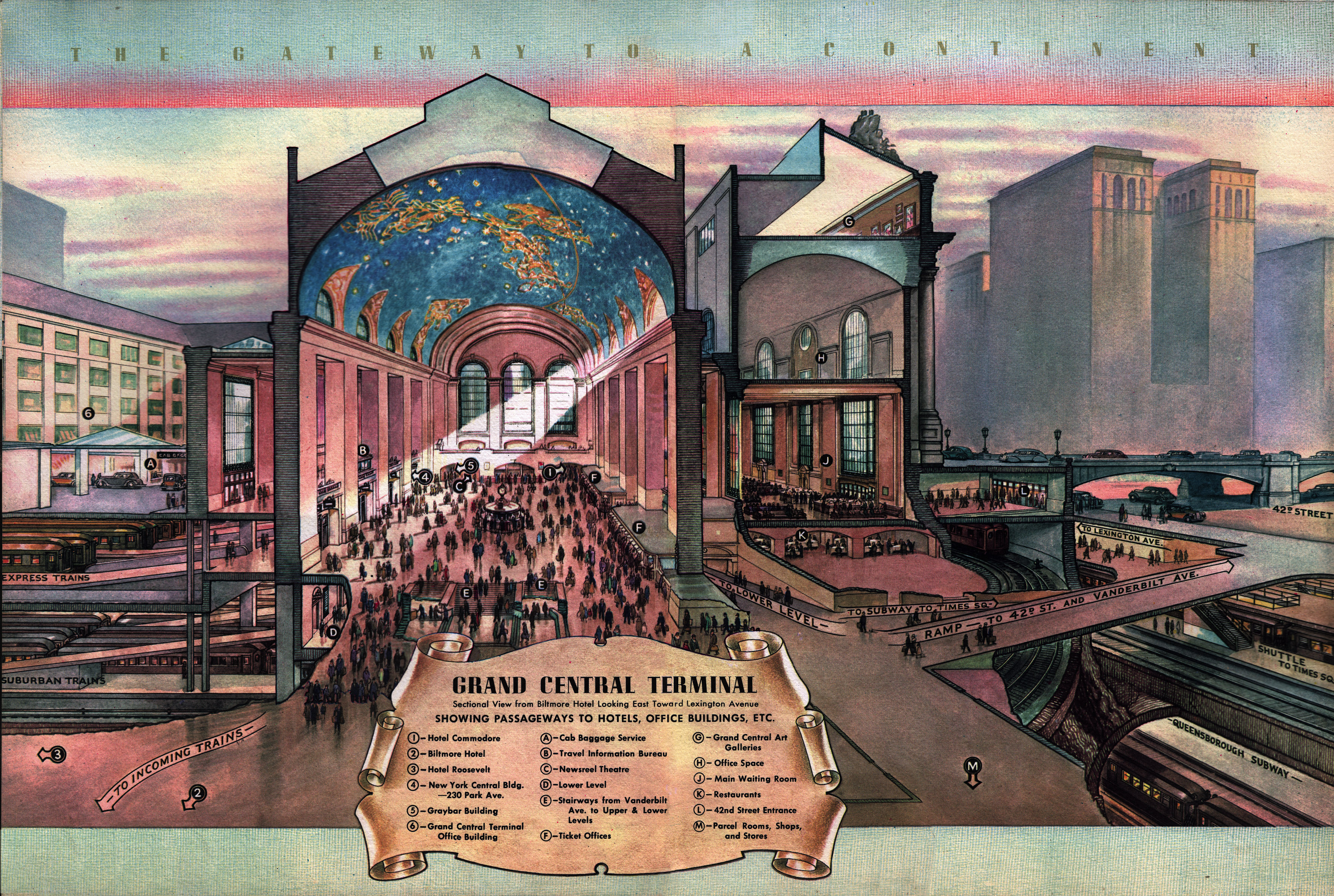 Grand Central Terminal - Sectional view from Biltmore Hotel looking east toward Lexington Avenue - 1939